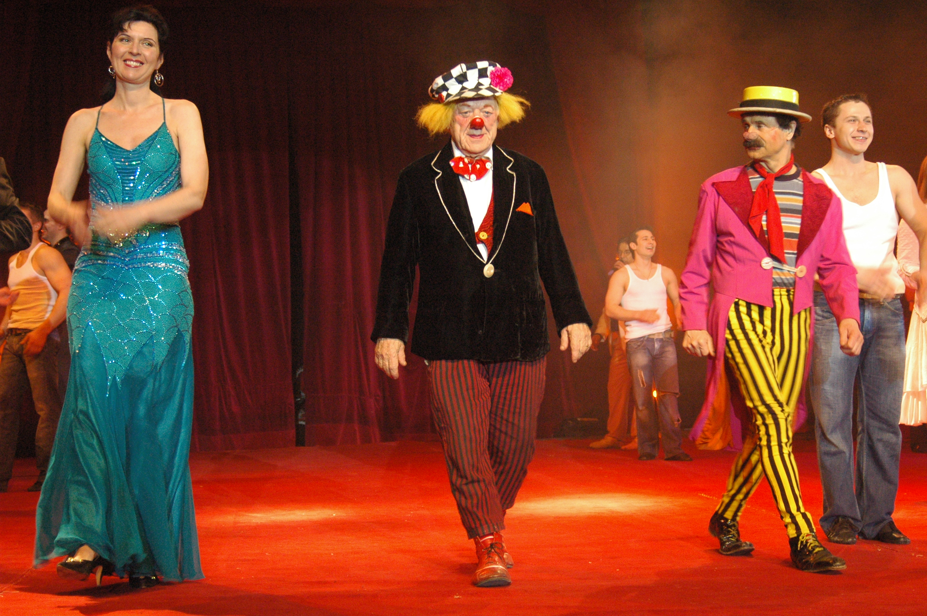 Oleg Popow performing with the Russian State Circus in Worms, Germany.